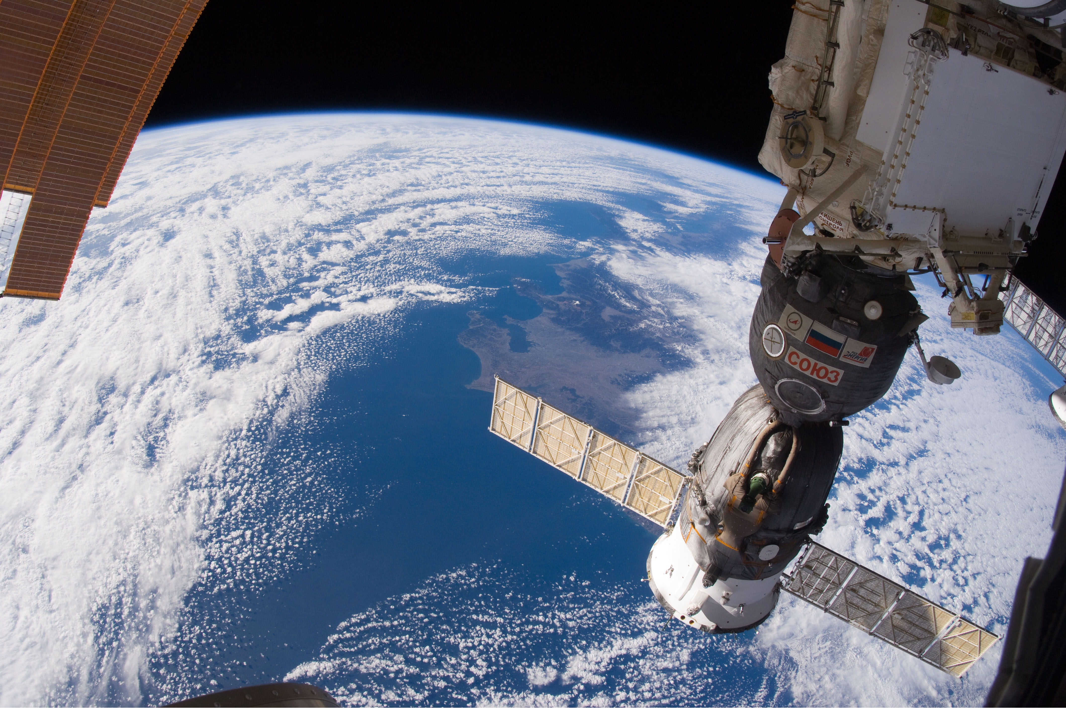 Russian Soyuz spacecraft, docked to the International Space Station, is featured in this image photographed by an Expedition 26 crew member aboard the station. A blue and white part of Earth and the blackness of space provide the backdrop for the scene.